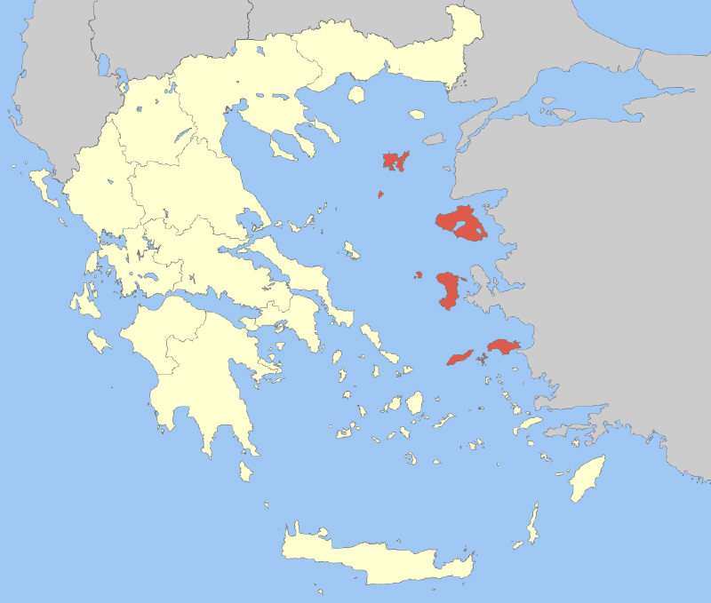 Locator Map of Northern Aegean Periphery, Greece